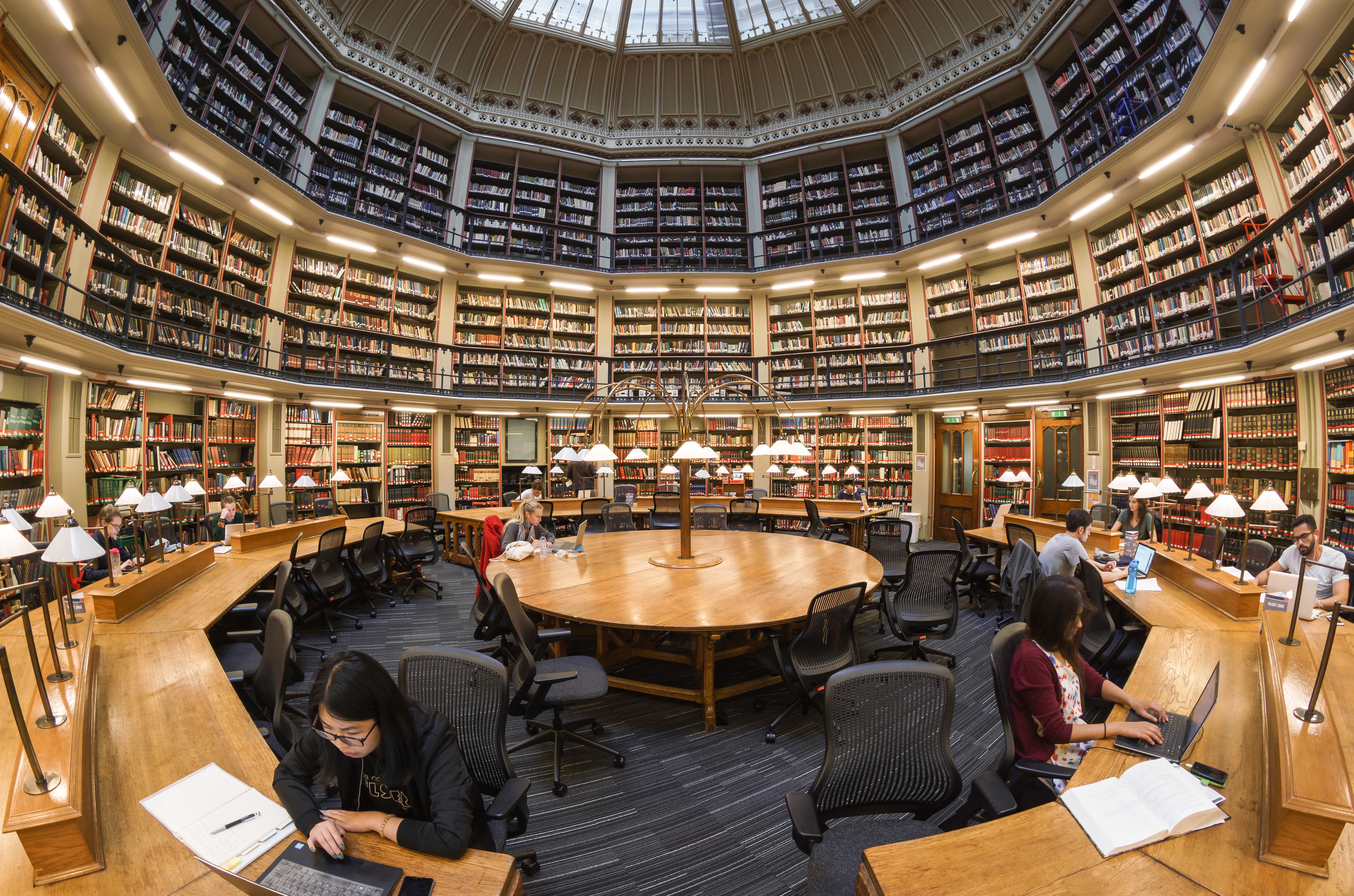 The Maughan Library round reading room. Wikidata has entry Q1167115 with data related to this item.